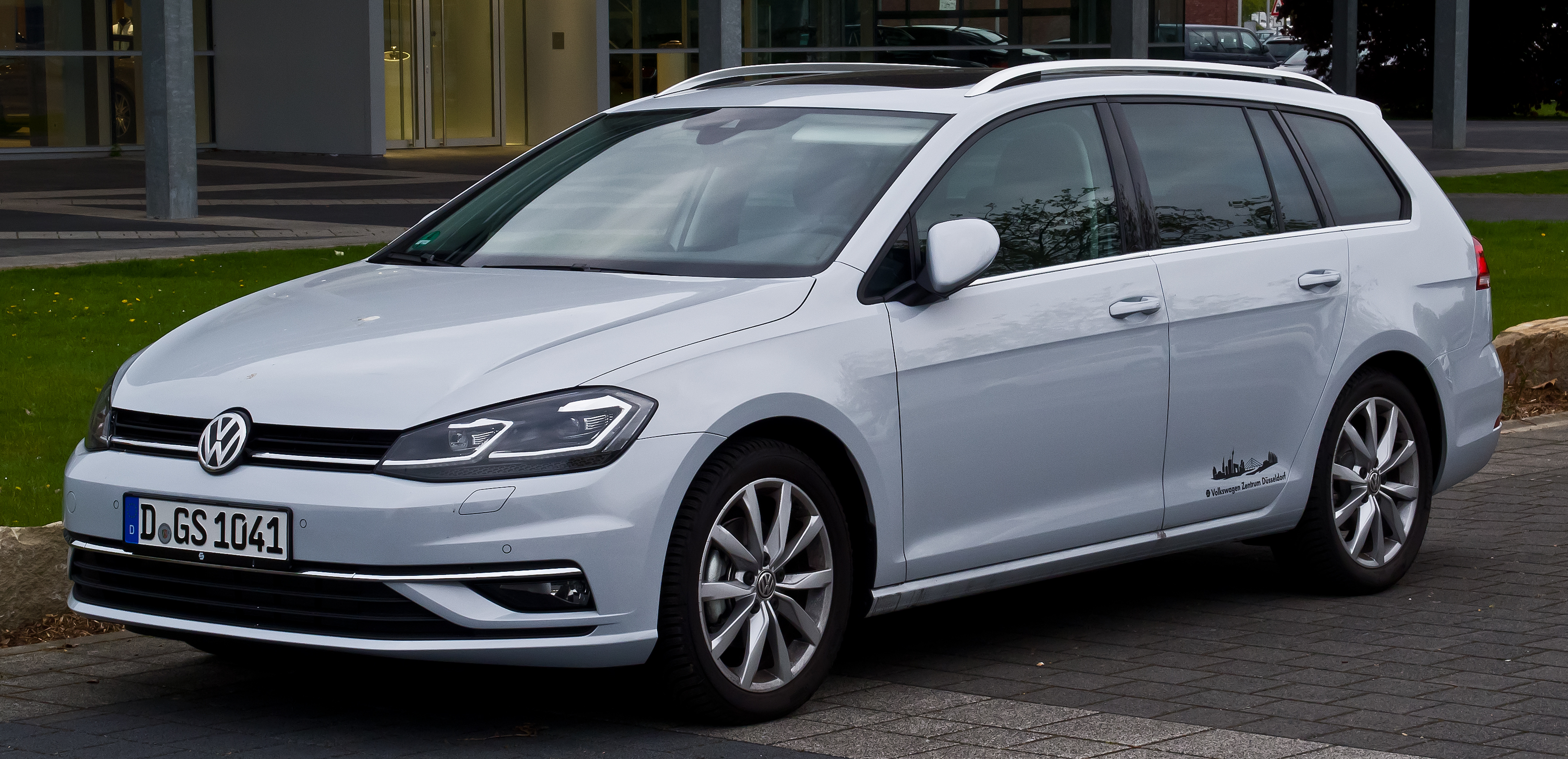 VW Golf Variant 1.4 TSI BlueMotion Technology Highline (VII, Facelift)